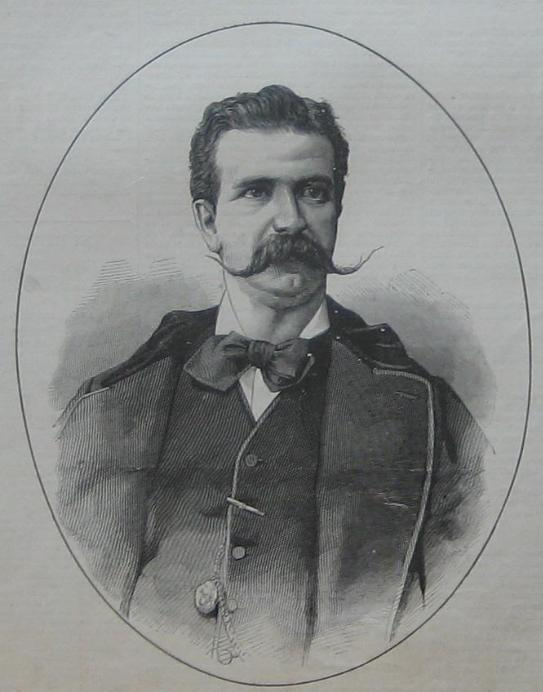 Spanish Politician Manuel Danvila